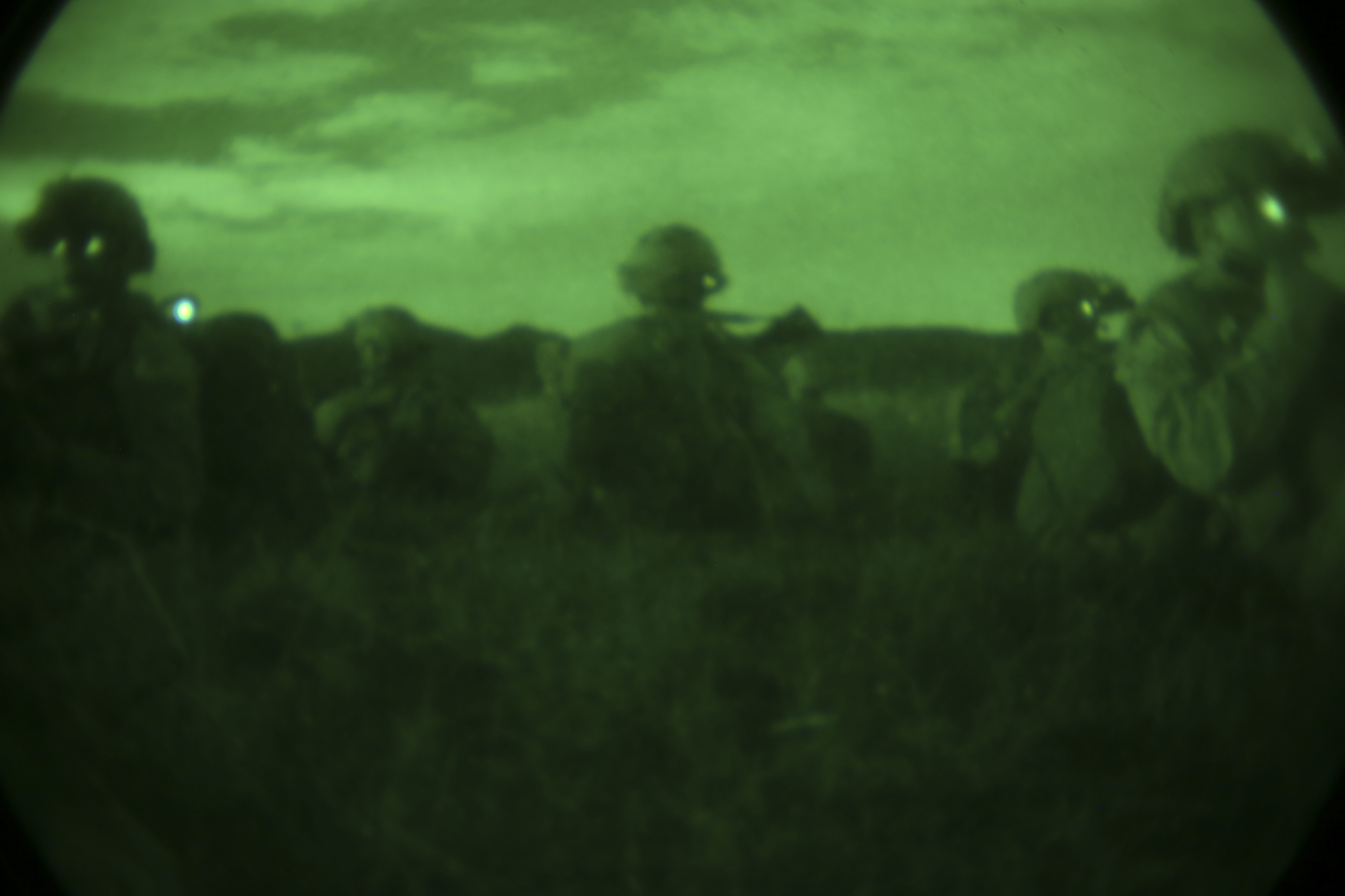 Marines with Company B, 1st Reconnaissance Battalion, 1st Marine Division, assess their situation before continuing a patrol during a night reconnaissance training mission aboard Camp Pendleton, Calif., Sept. 28, 2016. During their patrols, Marines periodically take time to smell, which allows them to have better situational awareness and alert them if they have been compromised. (U.S. Marine Corps photo by Lance Cpl. Joseph Prado) Unit: 1st Marine Division